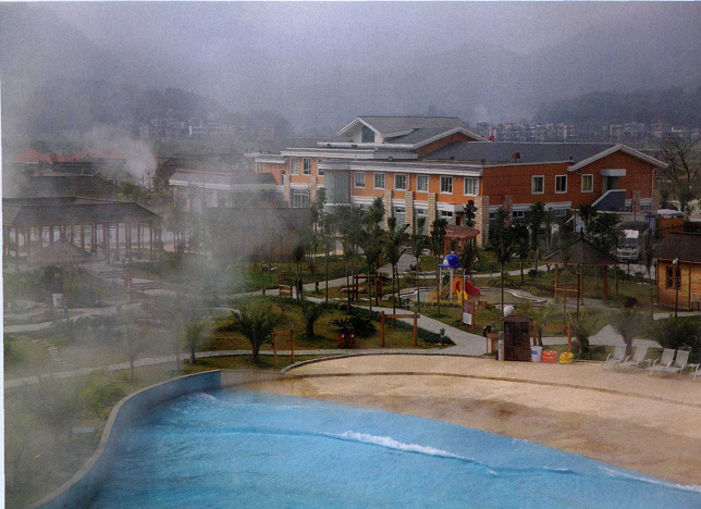 The photo of Guian Hot spring Resort